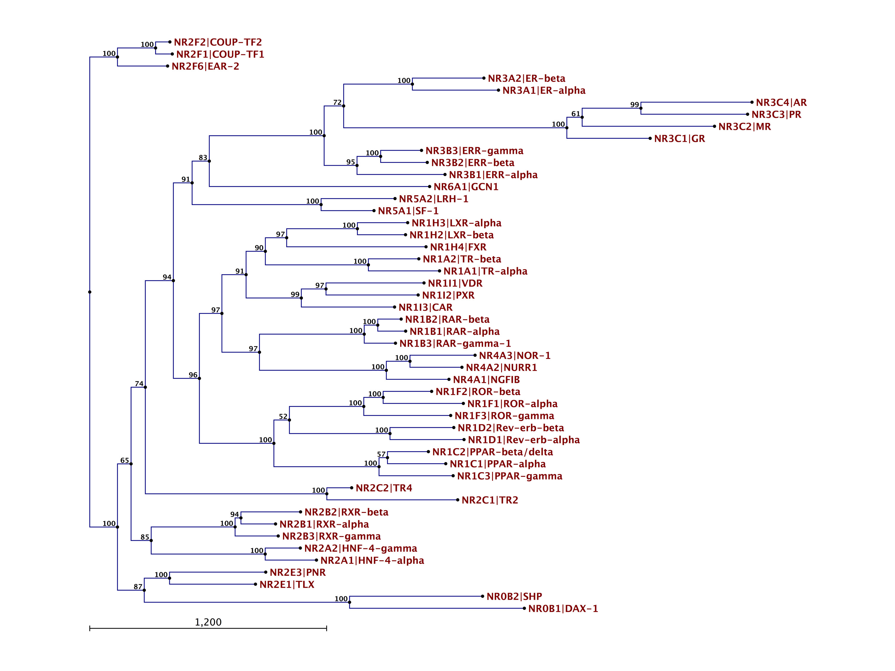 This figure was prepared using CLC Free Workbench Version 3.2.2 ( and amino acid sequences downloaded from the PubMed protein database ( Boghog2 11:04, 9 June 2007 (UTC)